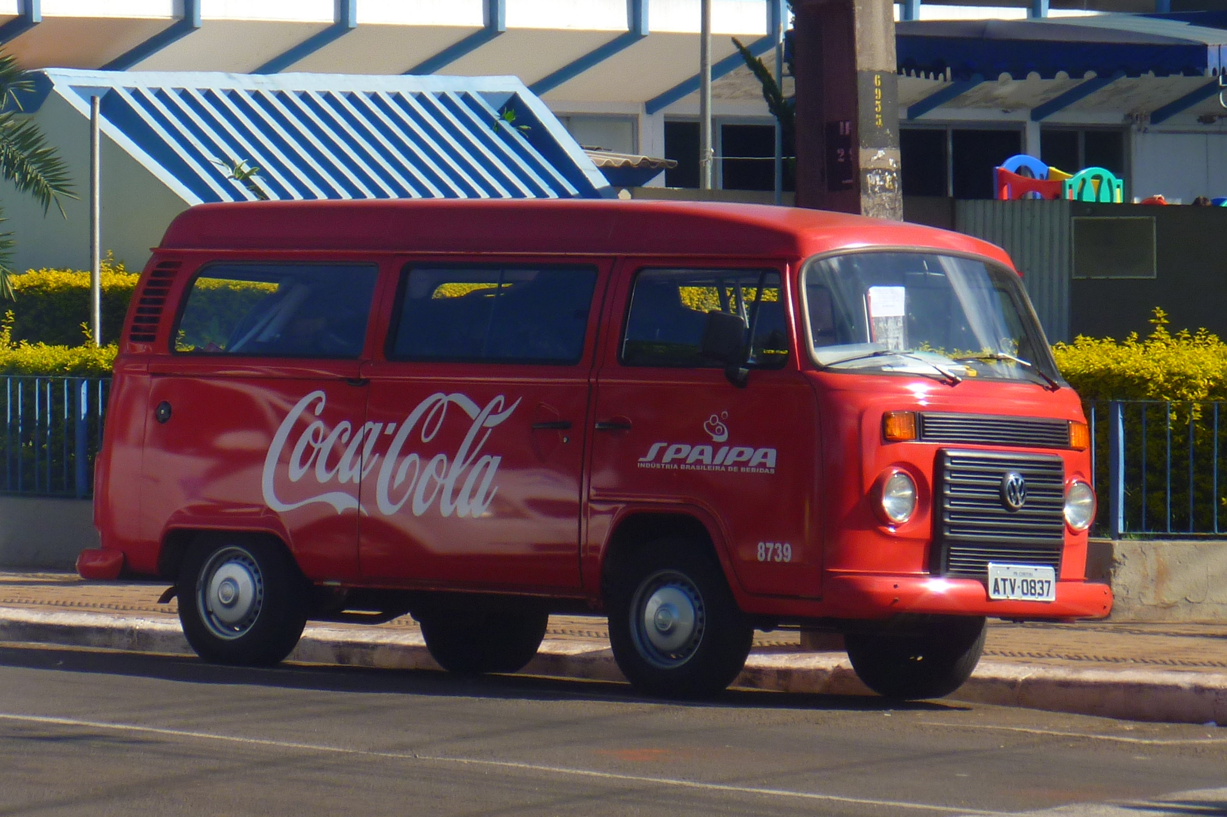 Volkswagen T2 painted with the Coca Cola logo in Maringa, PR, Brazil